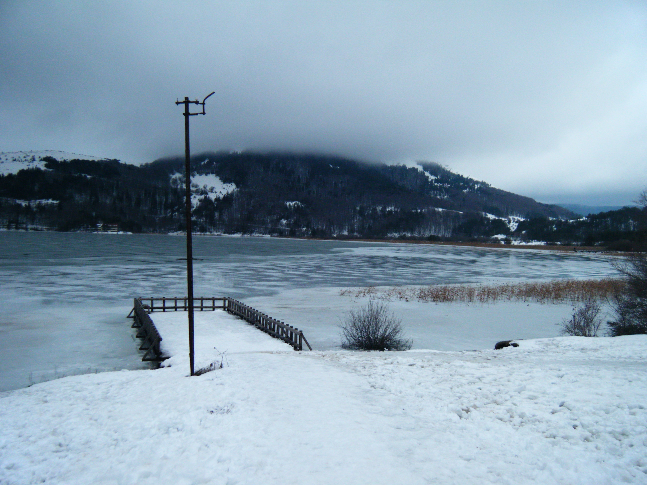 Lake Abant